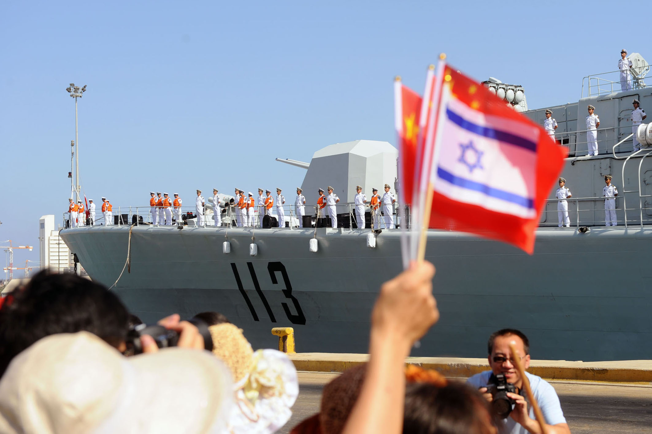 The Israel Navy congratulates the Chinese Navy on docking at the Haifa port. On August 13, 2012, the Chinese vessels arrived at Israel in order to celebrate 20 years of cooperation between the Israel Navy and the Chinese Navy. RADM Yang Jun-Fei was welcomed by the Haifa base commander, Brig. Gen. Eli Sharvit, upon his docking.